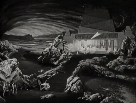 visuel effect for The Mole People (1956) - trailer (cropped screenshot)